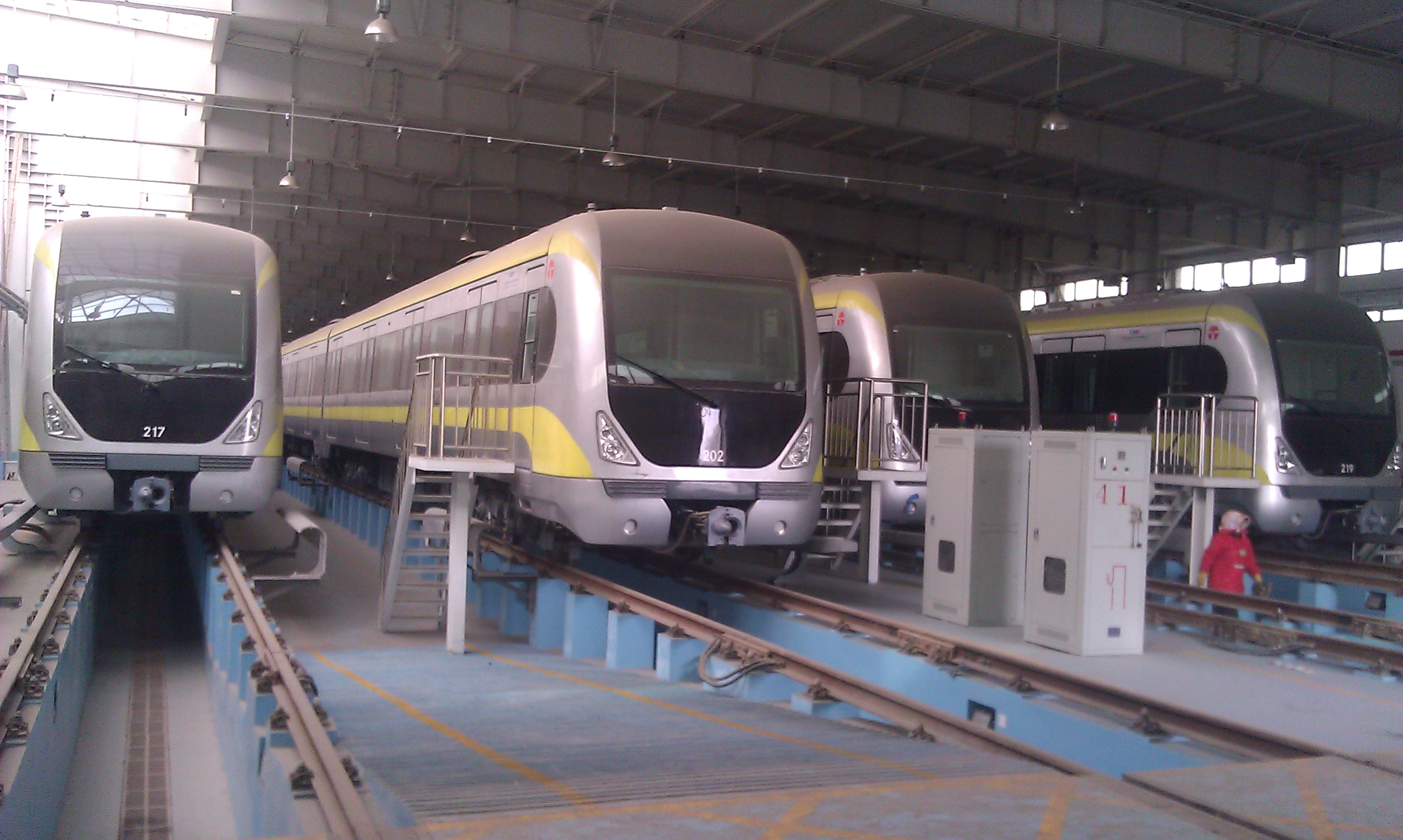 Tianjin metro line2